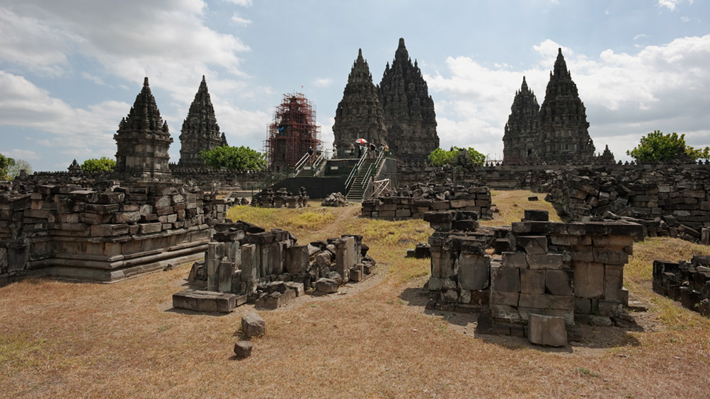 The temples of Prambanan, Java/Indonesia